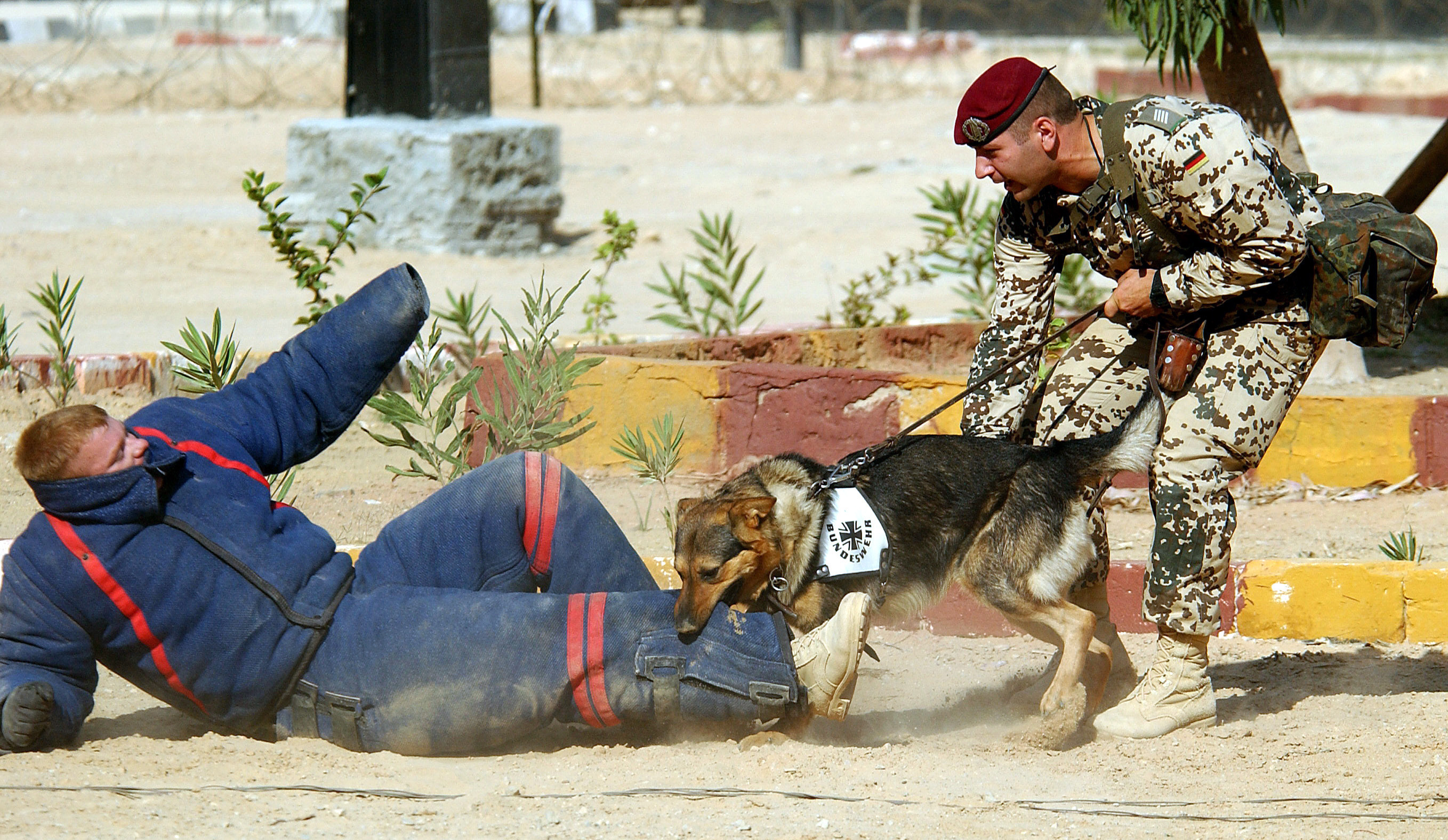 A German dog handler quickly pulls his working dog off a simulated criminal during a K-9 demonstration by the German Army at Mubarak Military City in Egypt. BRIGHT STAR 01-02 is a multinational exercise involving more than 74,000 troops from 44 countries that is designed to enhance regional stability and military-to-military cooperation among the US, its key allies, and its regional partners. It prepares US Central Command to rapidly deploy and employ the armed forces to deter aggressors and, if necessary, fight and win side-by-side with its allies and regional partners.